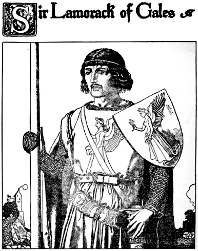 An illustration captioned "Sir Lamorack of Gales".